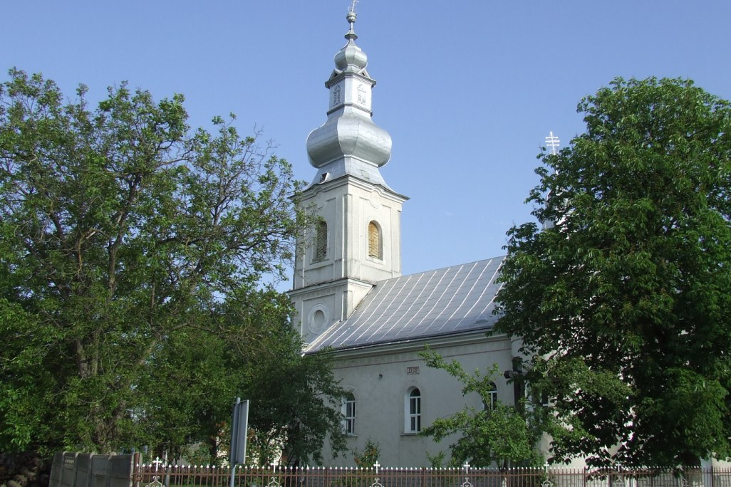 Church in Supur village, Satu Mare County, Romania